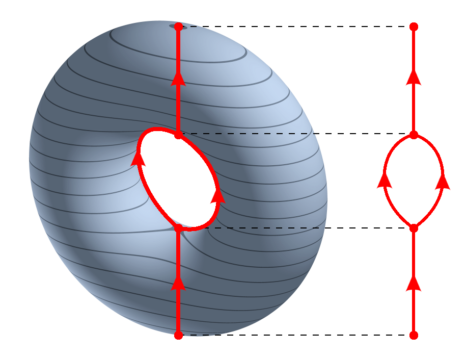 Reeb graph for levels of z for two-torus